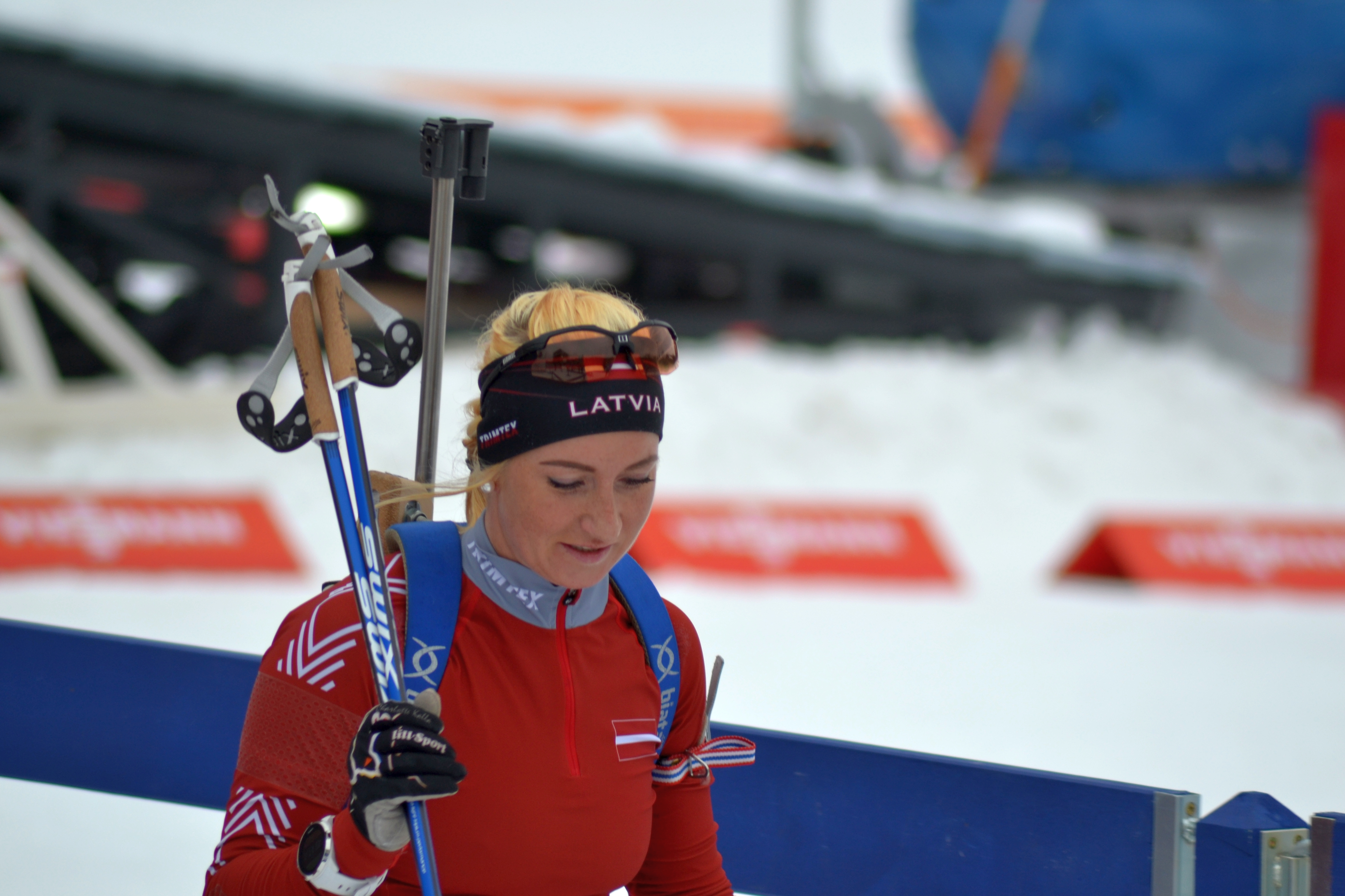 Open European Championships Biathlon 2017, Individual Women's race, held on January 25th.